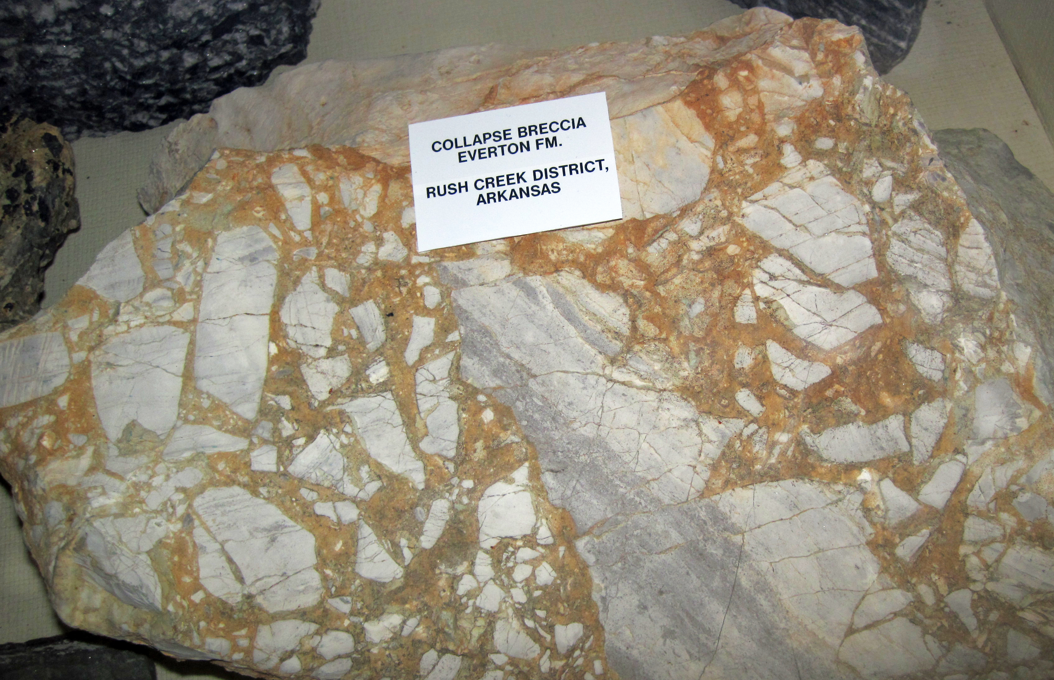 Collapse breccia from the Ordovician of Arkansas, USA. (public display, Geology Department, Wittenberg University, Springfield, Ohio, USA) Breccia is a poorly sorted rock having angular large grains. Breccias form many ways - examples range from igneous to sedimentary to metamorphic (e.g., volcanic breccia, xenolith breccia, boiling breccia, landslide breccia, seismite breccia, karst collapse breccia, mudchip breccia, pedogenic breccia, hydrothermal breccia, injectite breccia, tectonic breccia/fault breccia, impact breccia, etc.). The rock shown here is a carbonate collapse breccia from Arkansas. It formed when a subsurface dissolutional void (= karst cavity; = cave) collapsed. Stratigraphy: Everton Formation, Middle Ordovician Locality: unrecorded/undisclosed site attributed to the Rush Creek District, Marion County, northern Arkansas, USA